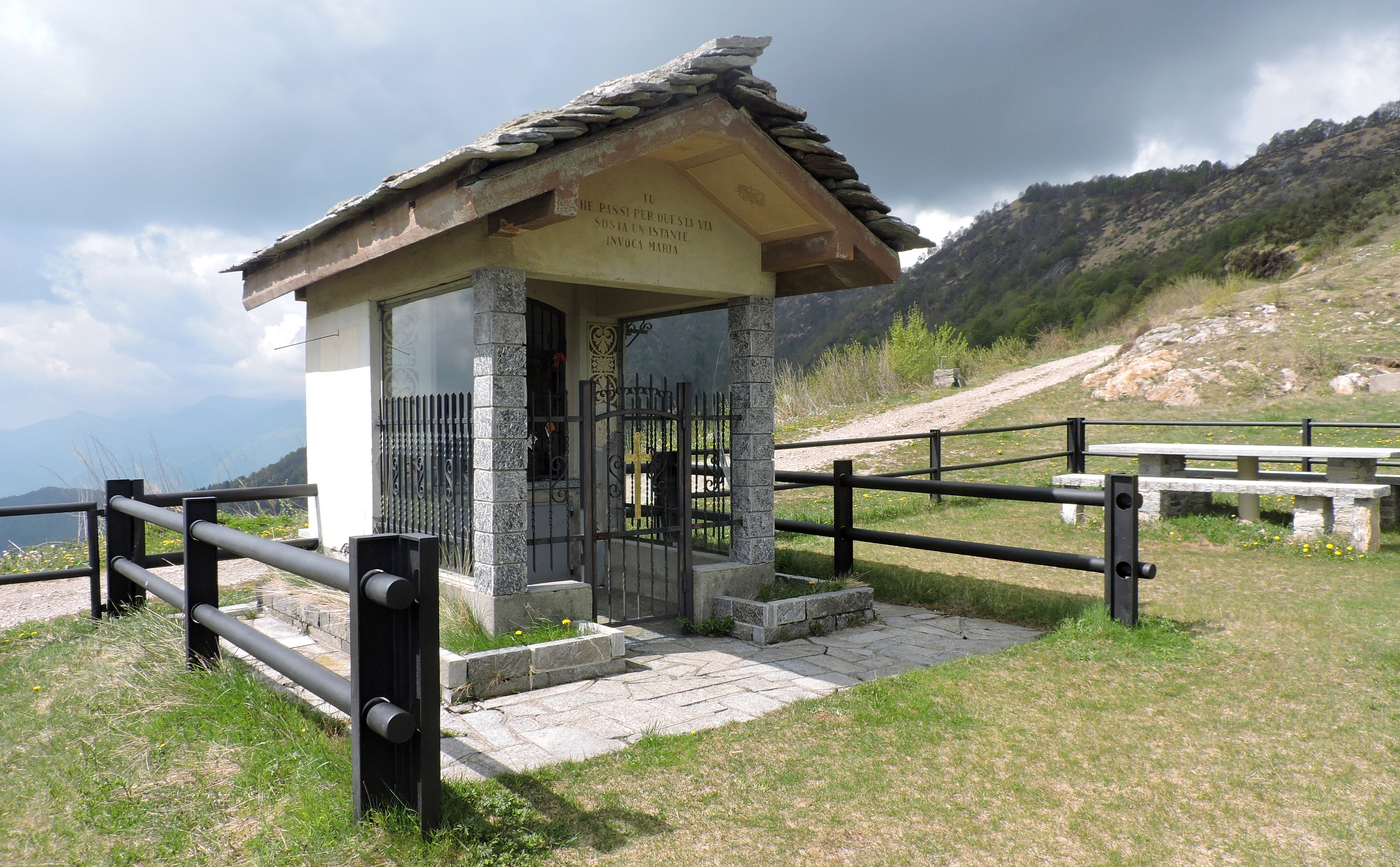 Colle del Ranghetto (Alpi Cusiane, Italy): the small chapel on the pass